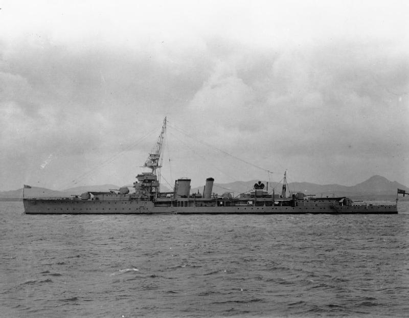 Royal Navy C-class light cruiser HMS Ceres